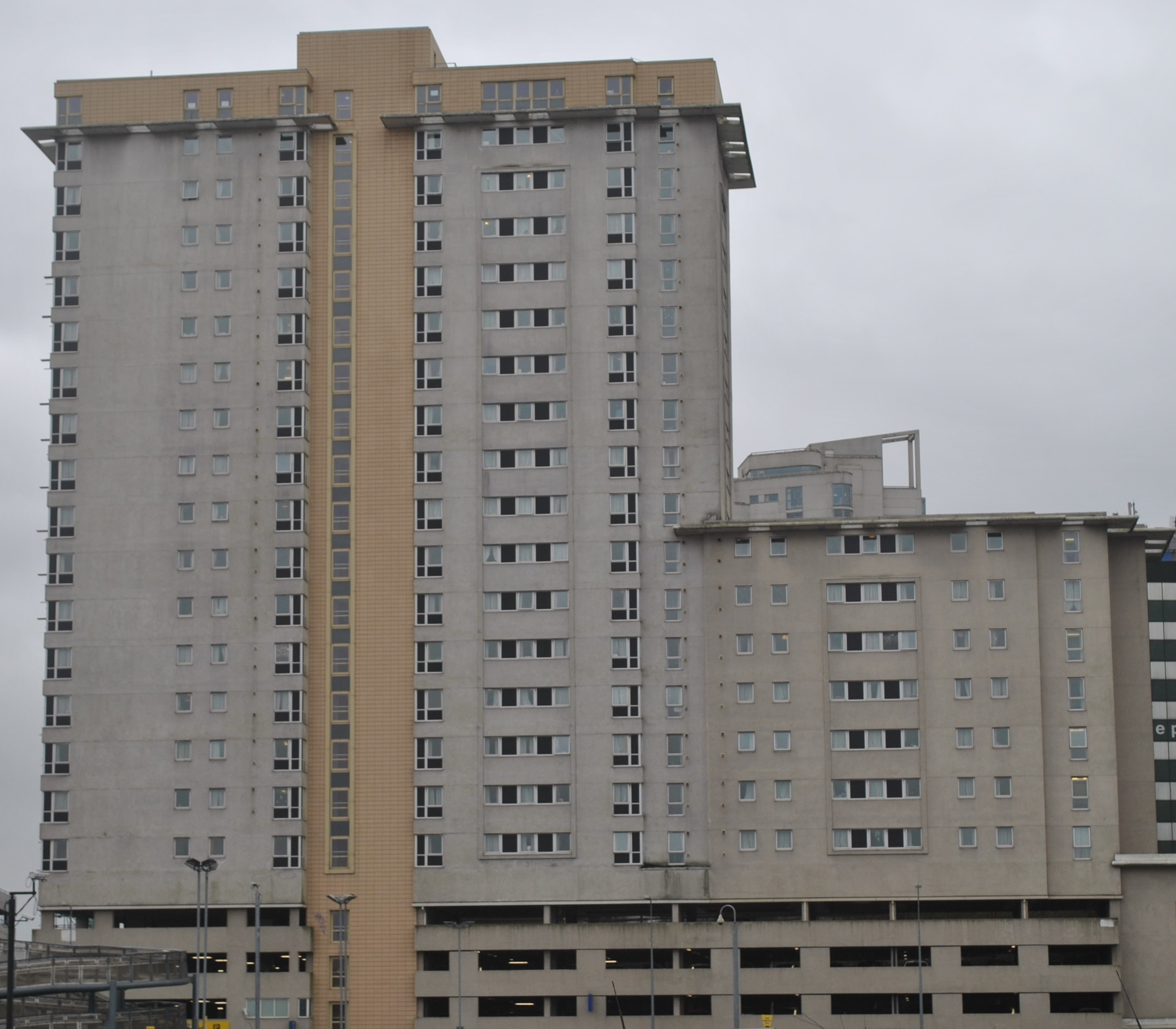 Tŷ Pont Haearn, Cardiff Wales in 2017.